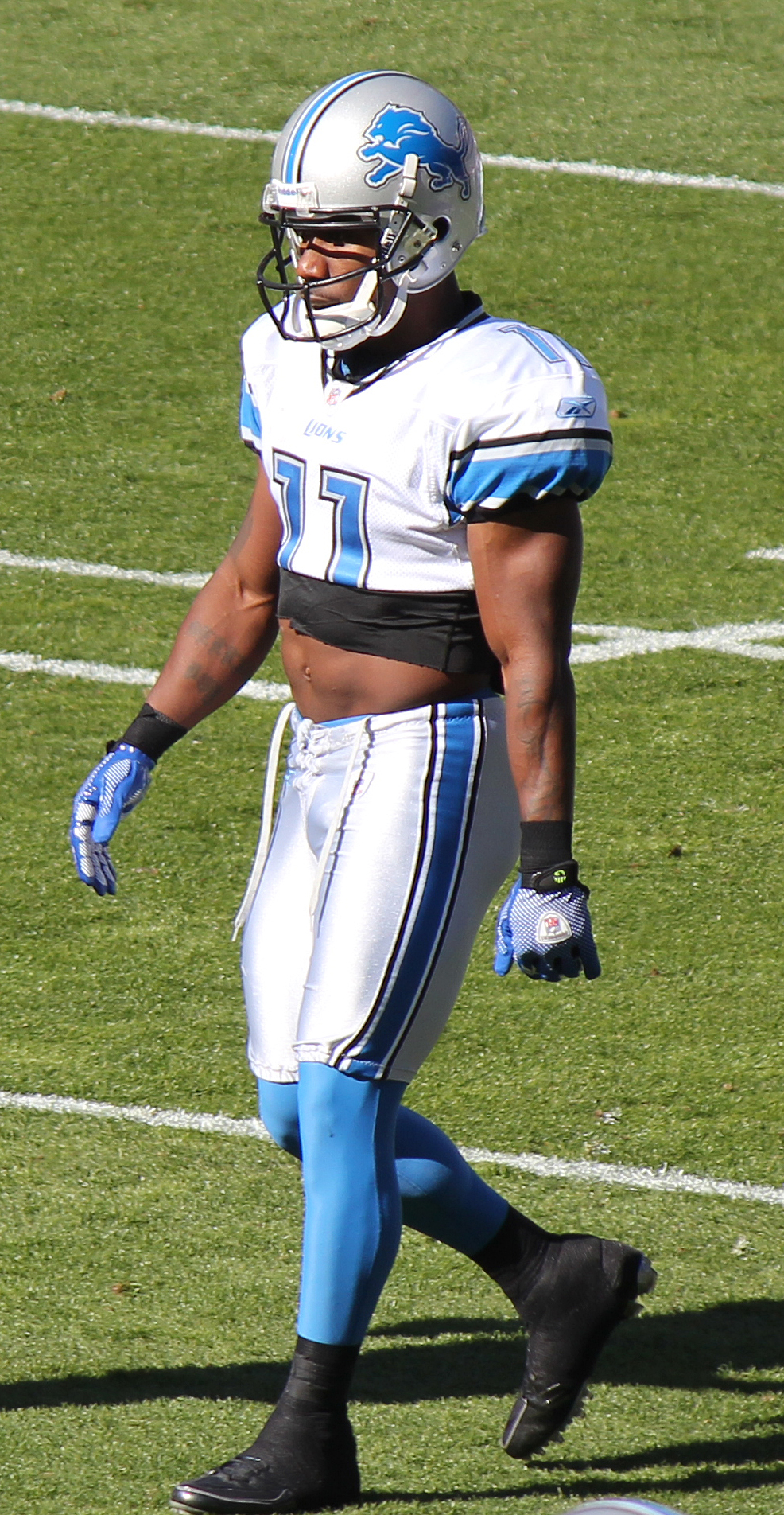 Stefan Logan, a player on the National Football League.